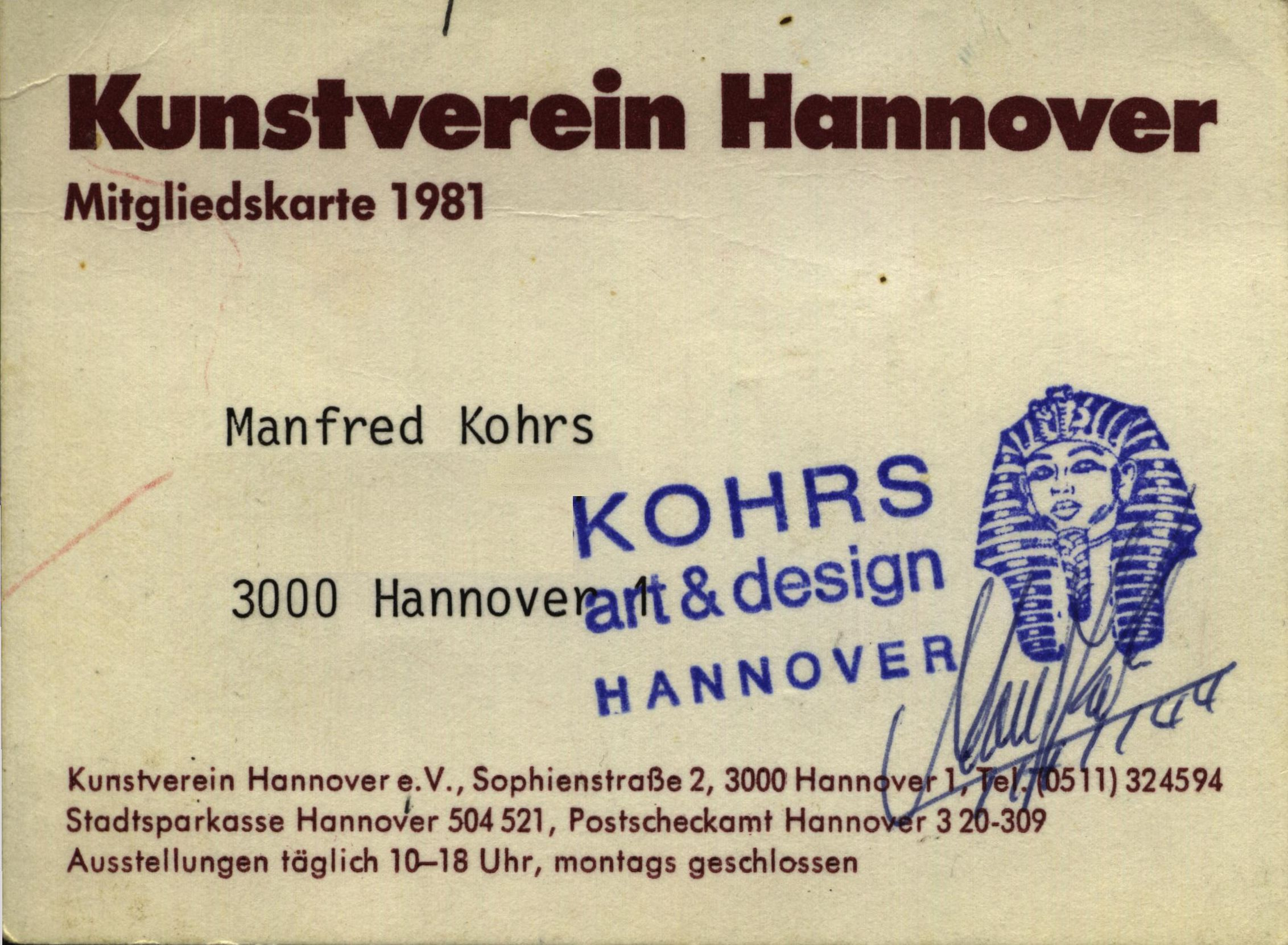 Member Card "Kunstverein Hannover 1981" Manfred Kohrs ...